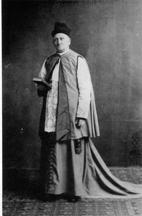 Portraitphoto Peter Conrad Nagel (1825-1911)